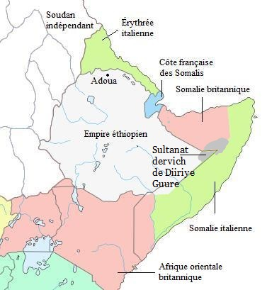 Pre Adowa Situation (1896) in the Horn of Africa, the borders are the current ones